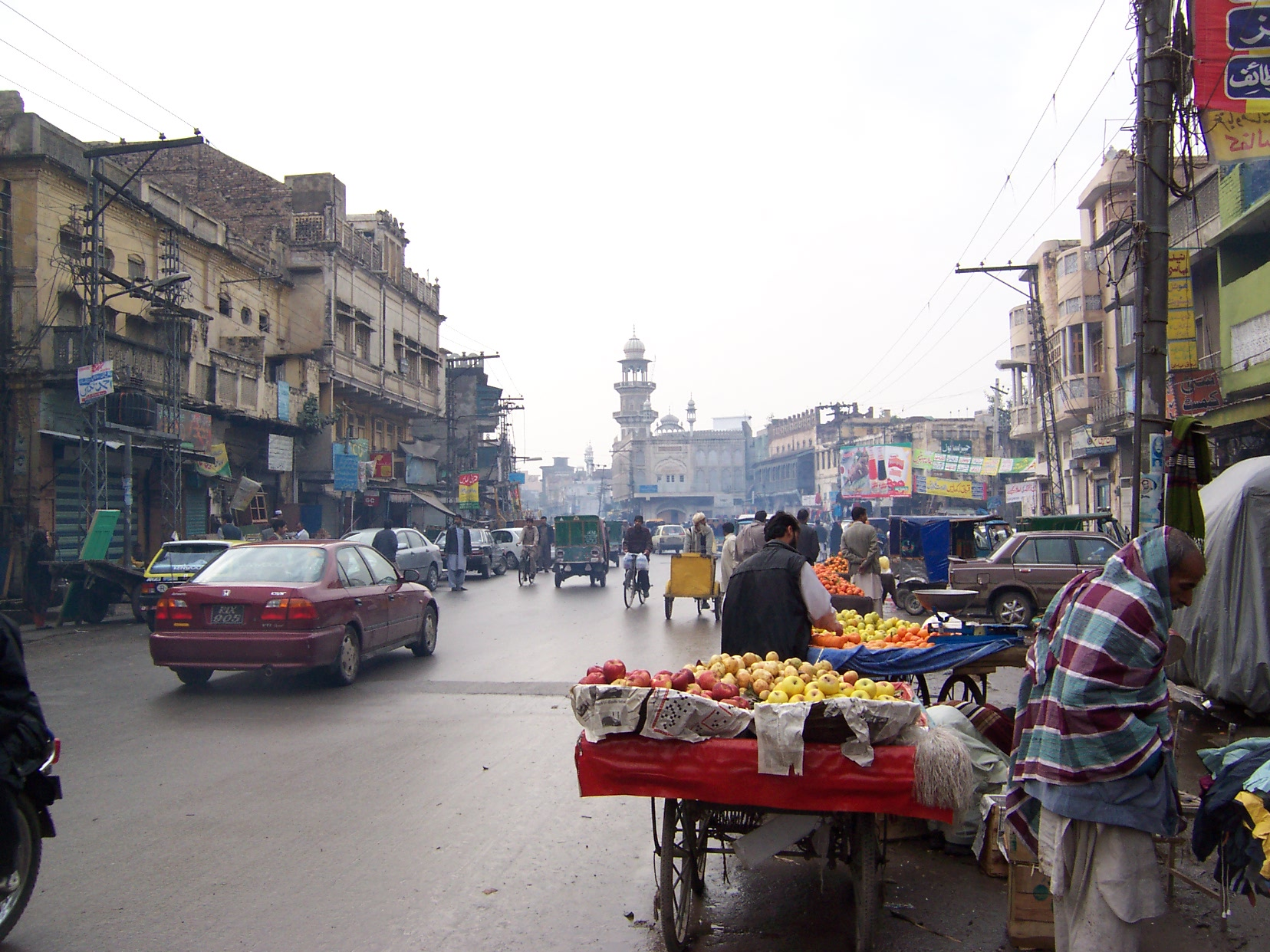 sadar bazar The picture which is placed here is of Jamia Masjid Road,, ImamBara chowk accept of Sadar bazar.